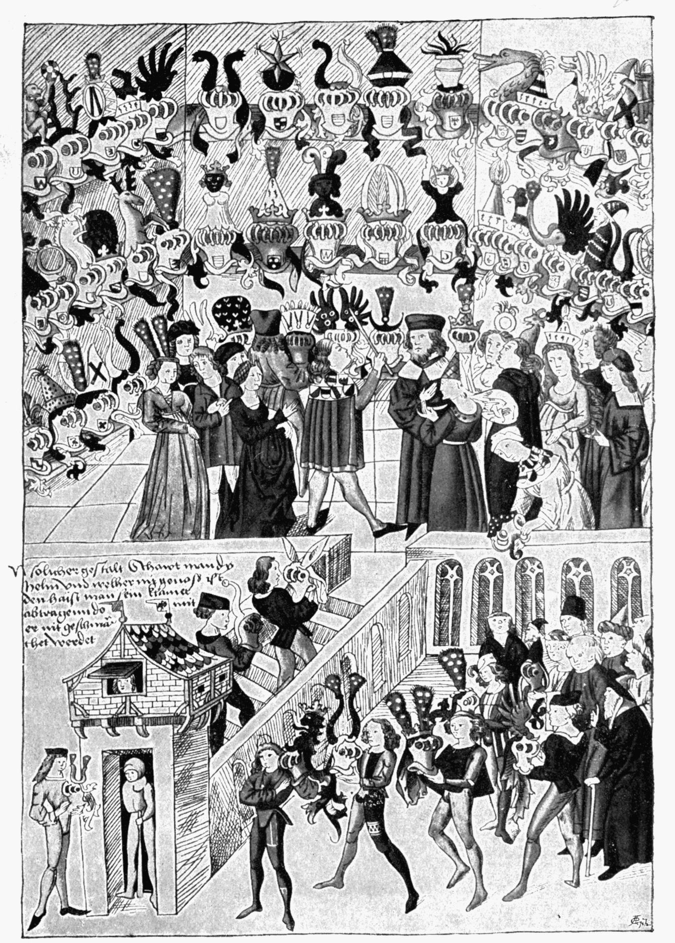 Fig. 12.—Helmschau or Helmet-Show. (From Konrad Grünenberg's Wappencodex zu München.) End of fifteenth century.